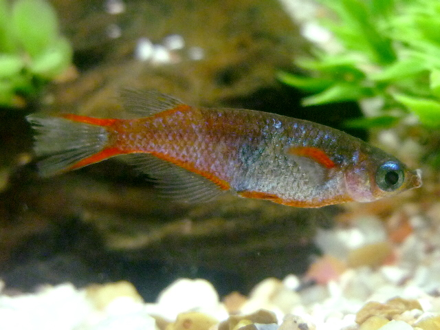 Male Daisy's Ricefish